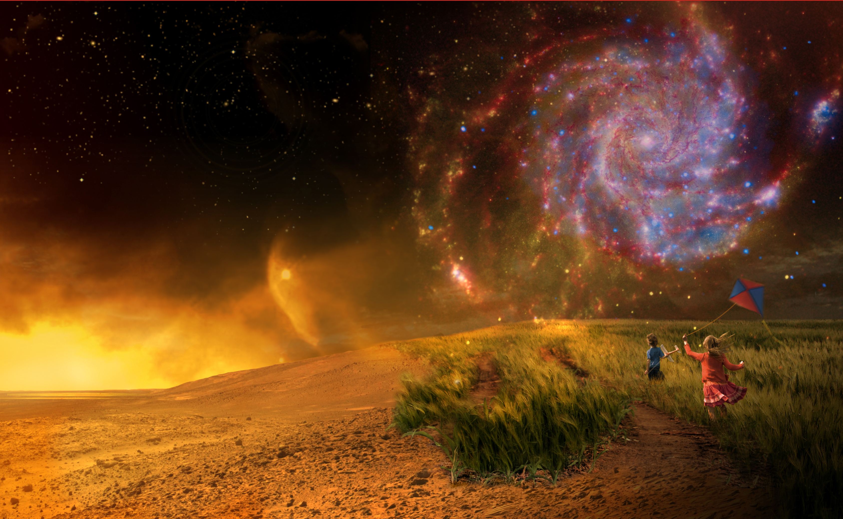 Astrobiology Award - NExSS Poster April 22, 2015 The search for life beyond our solar system requires unprecedented cooperation across scientific disciplines. NASA's NExSS collaboration includes those who study Earth as a life-bearing planet (lower right), those researching the diversity of solar system planets (left), and those on the new frontier, discovering worlds orbiting other stars in the galaxy (upper right).